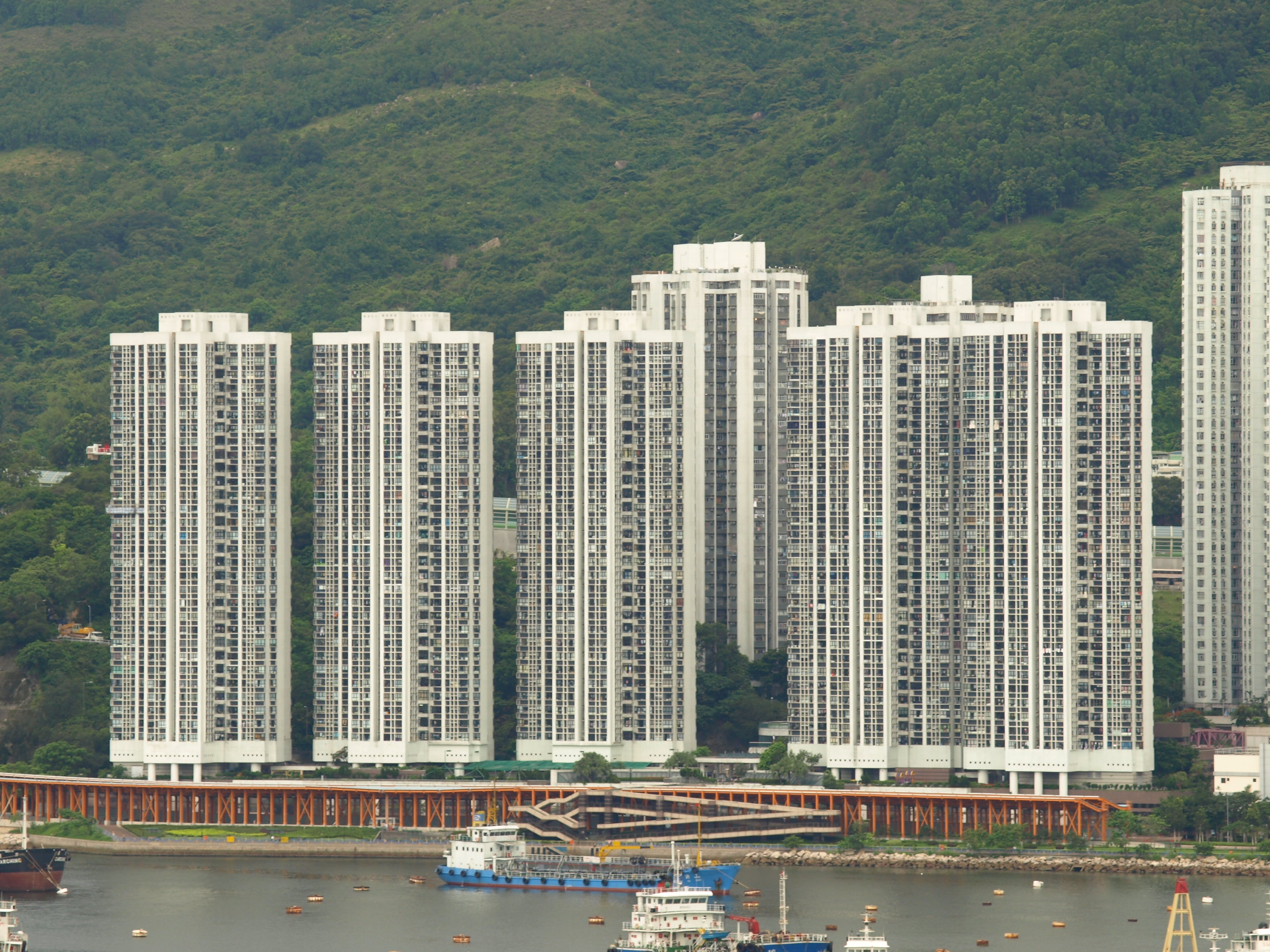 User created page with UploadWizard